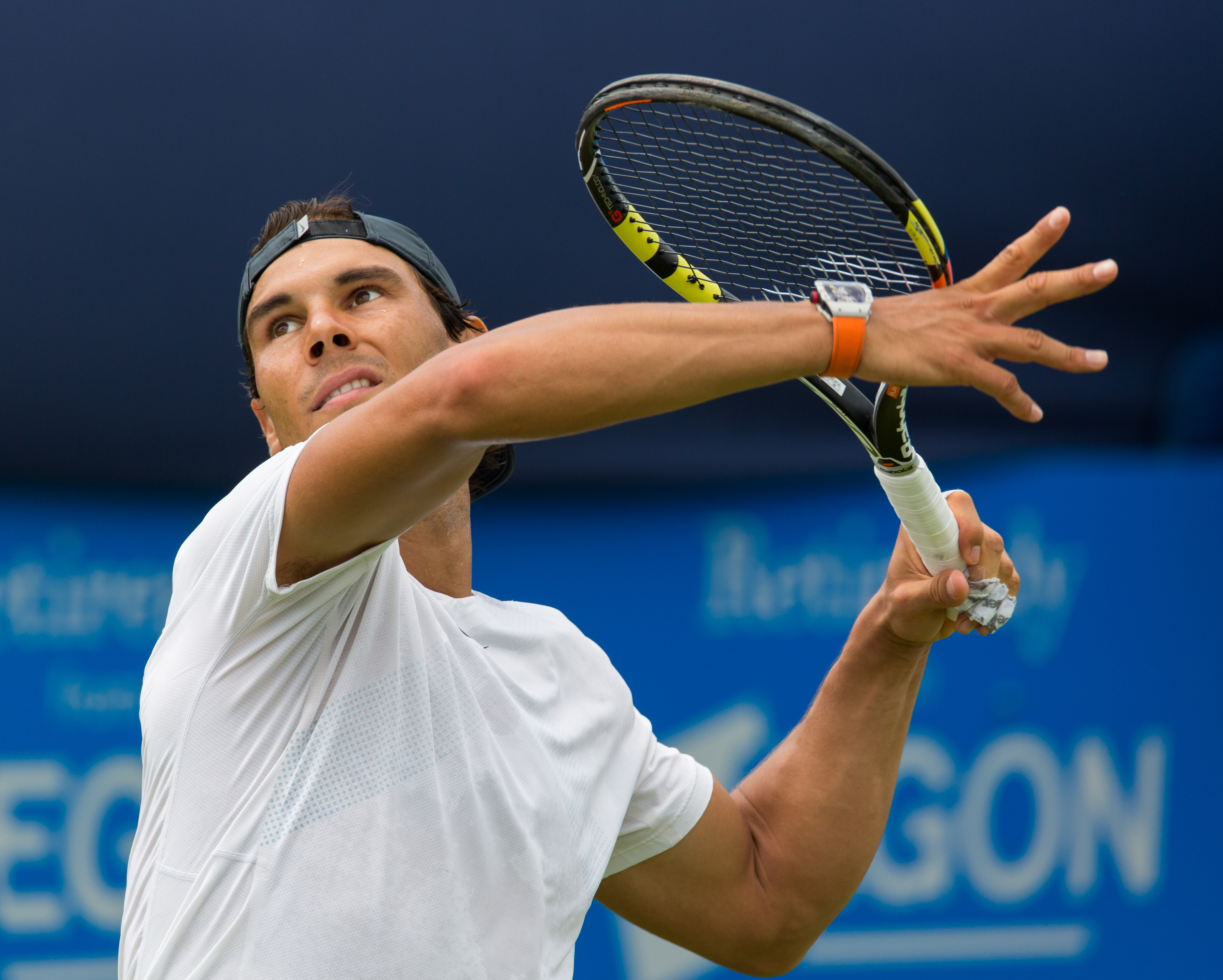 Rafael Nadal during practice at the Queens Club Aegon Championships in London, England.